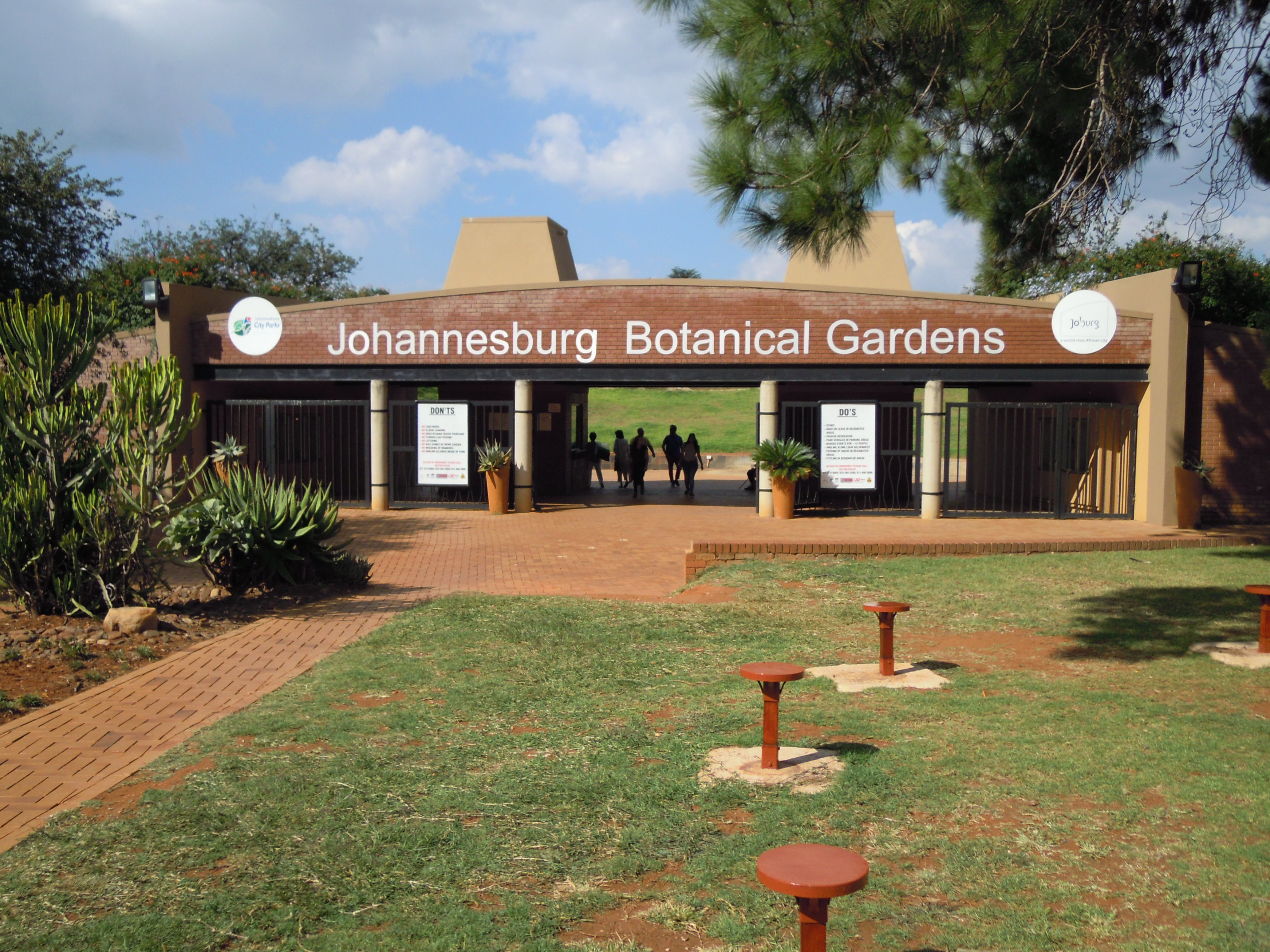 Johannesburg Botanical Gardens main entrance in Thomas Bowler Street, Roosevelt Park